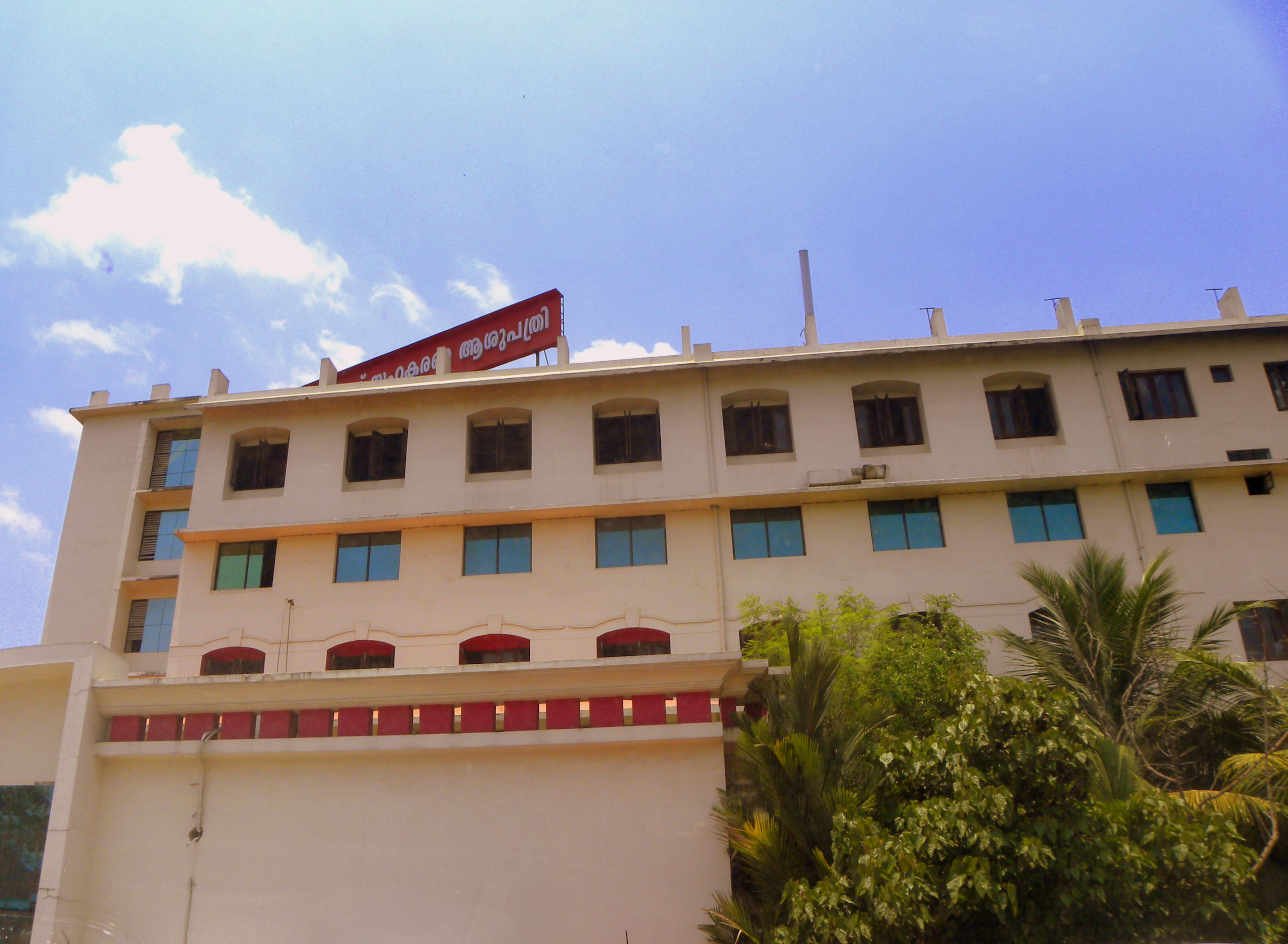 N.S Memorial Institute of Medical Sciences in Kollam city is the largest co-operative multi-specialty hospital in South Kerala.